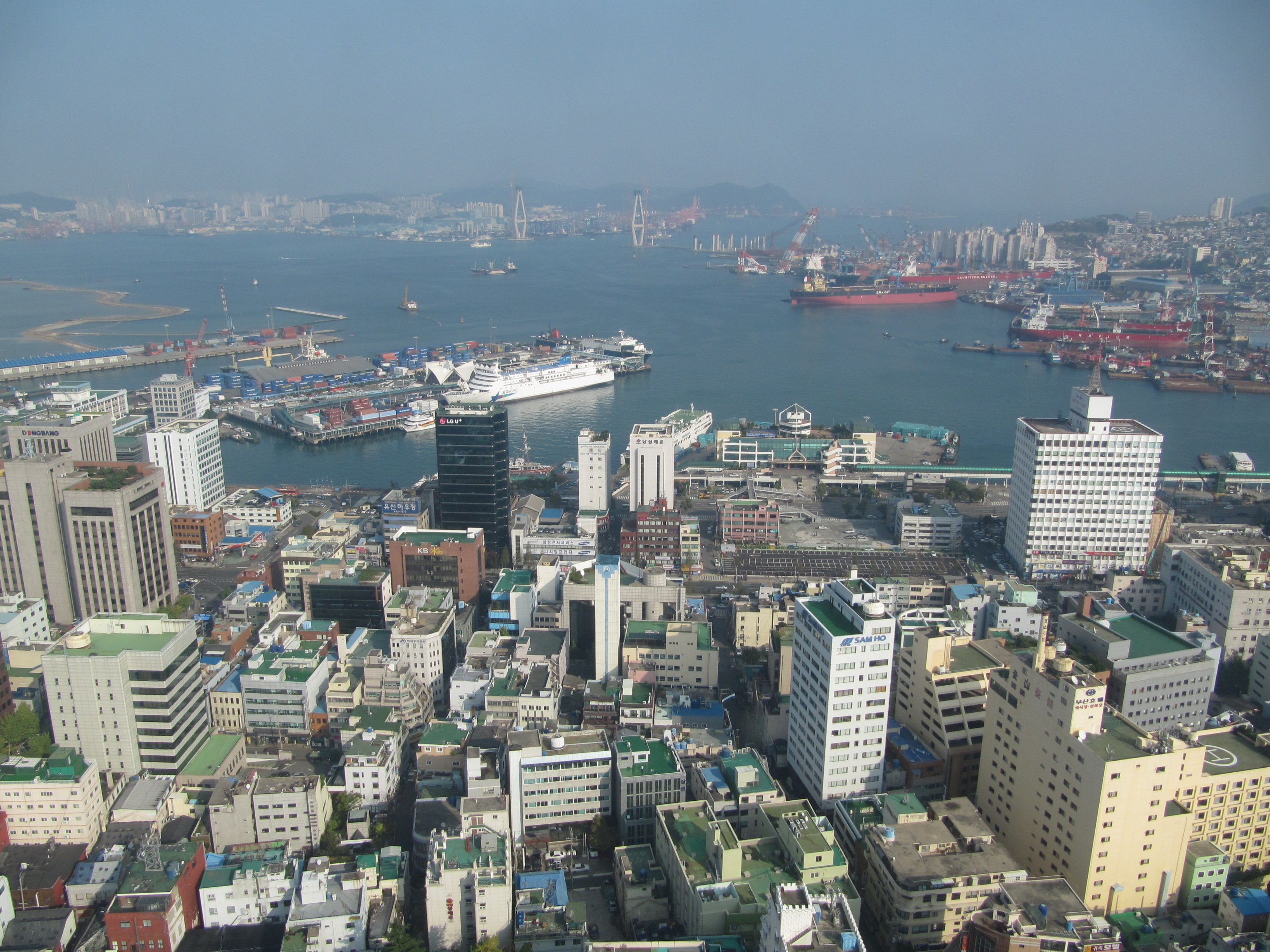 Busan tower view